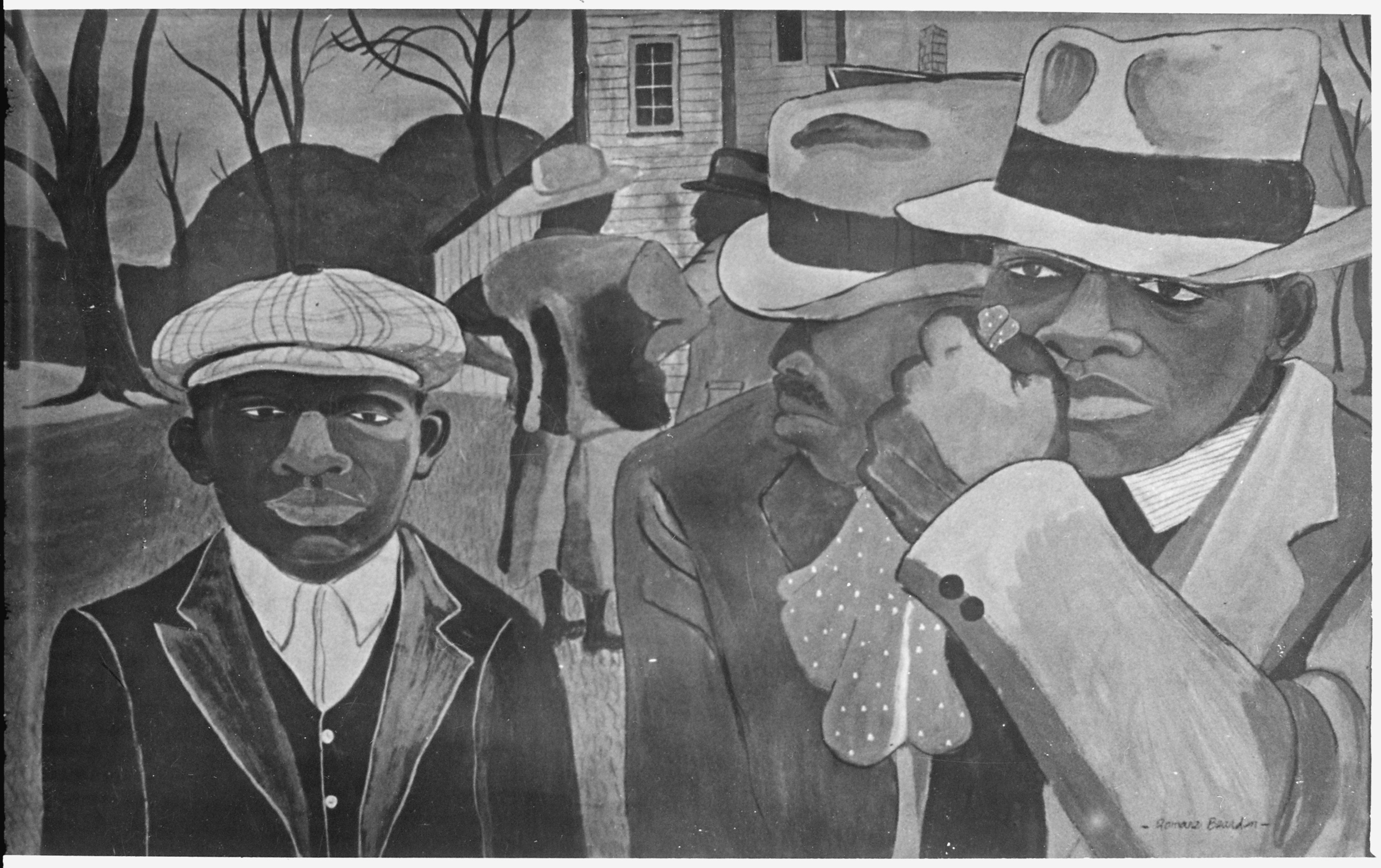 General notes: Painting.This image is also available in color. Please ask Contact below to obtain a copy.